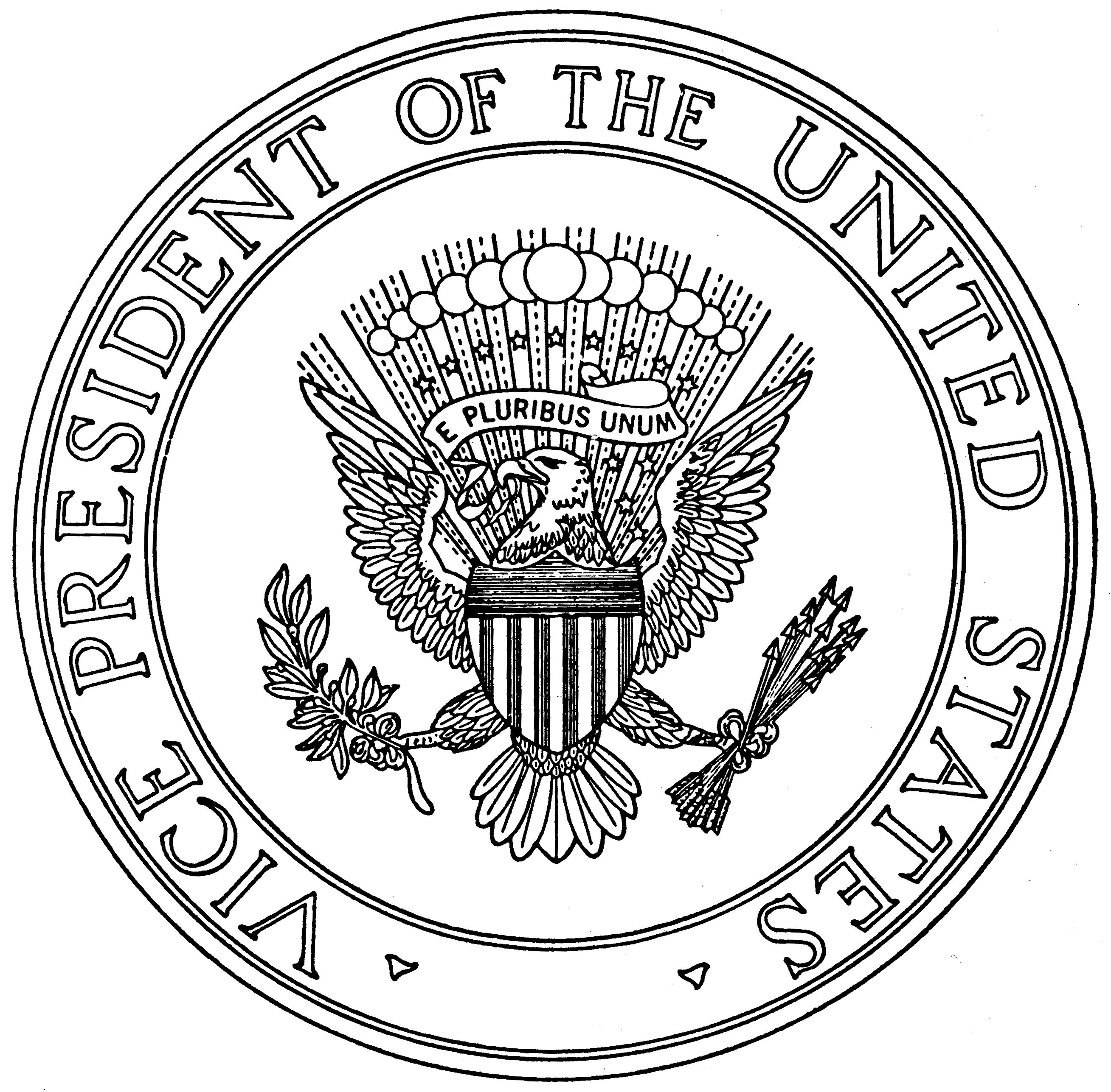 Drawing of the 1975 (and still current) version of the Seal of the Vice President of the United States. This is an attachment to President Ford's Executive Order 11884, which defined the seal.